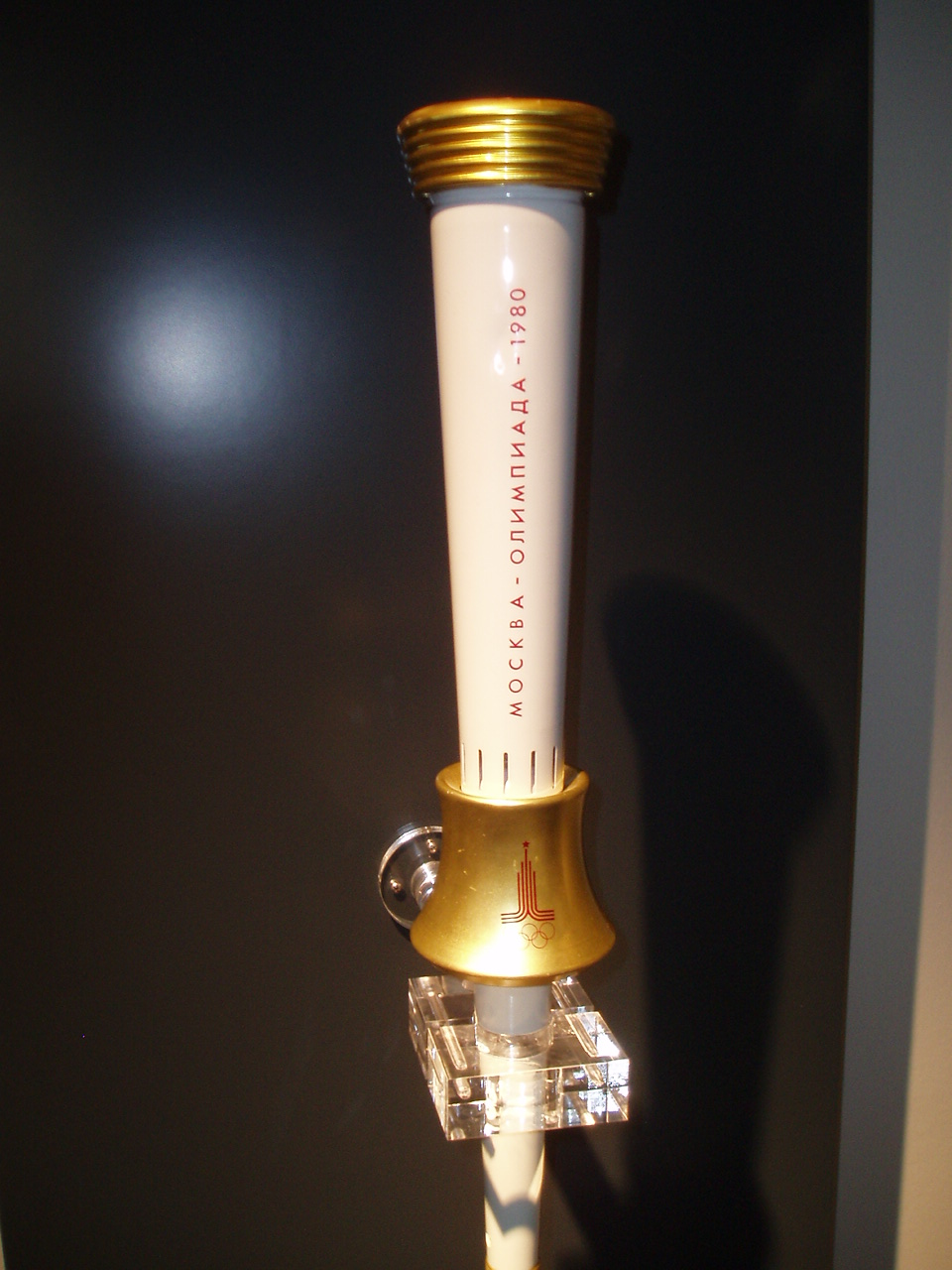 Torch of Moscow 1980 Olympic Games